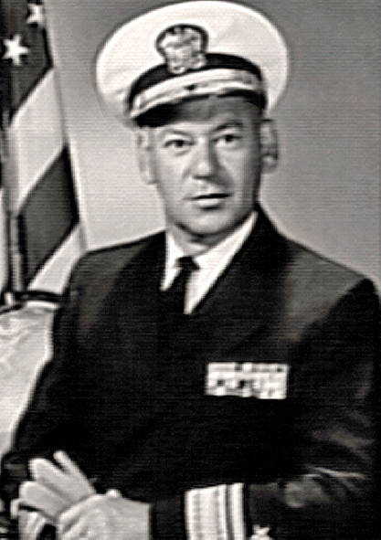 Arthur R. Gralla United States Navy service photo